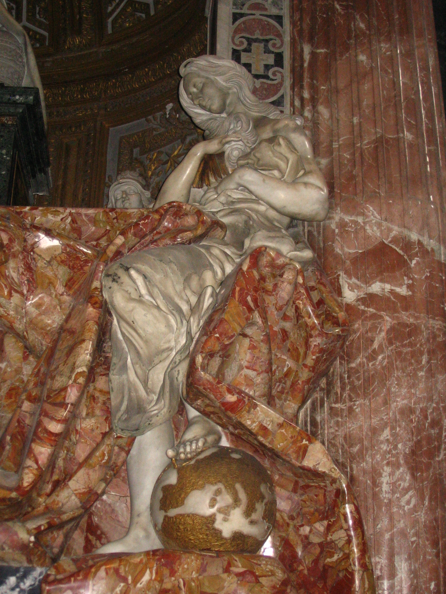 Monument to Alexander VII (Detail: Truth, by Morelli and Cartari in Monument to Alexander VII at the Basilica di San Pietro, in Vaticano) Monumento en memoria a papa Alejandro VII, Basílica de San Pedro